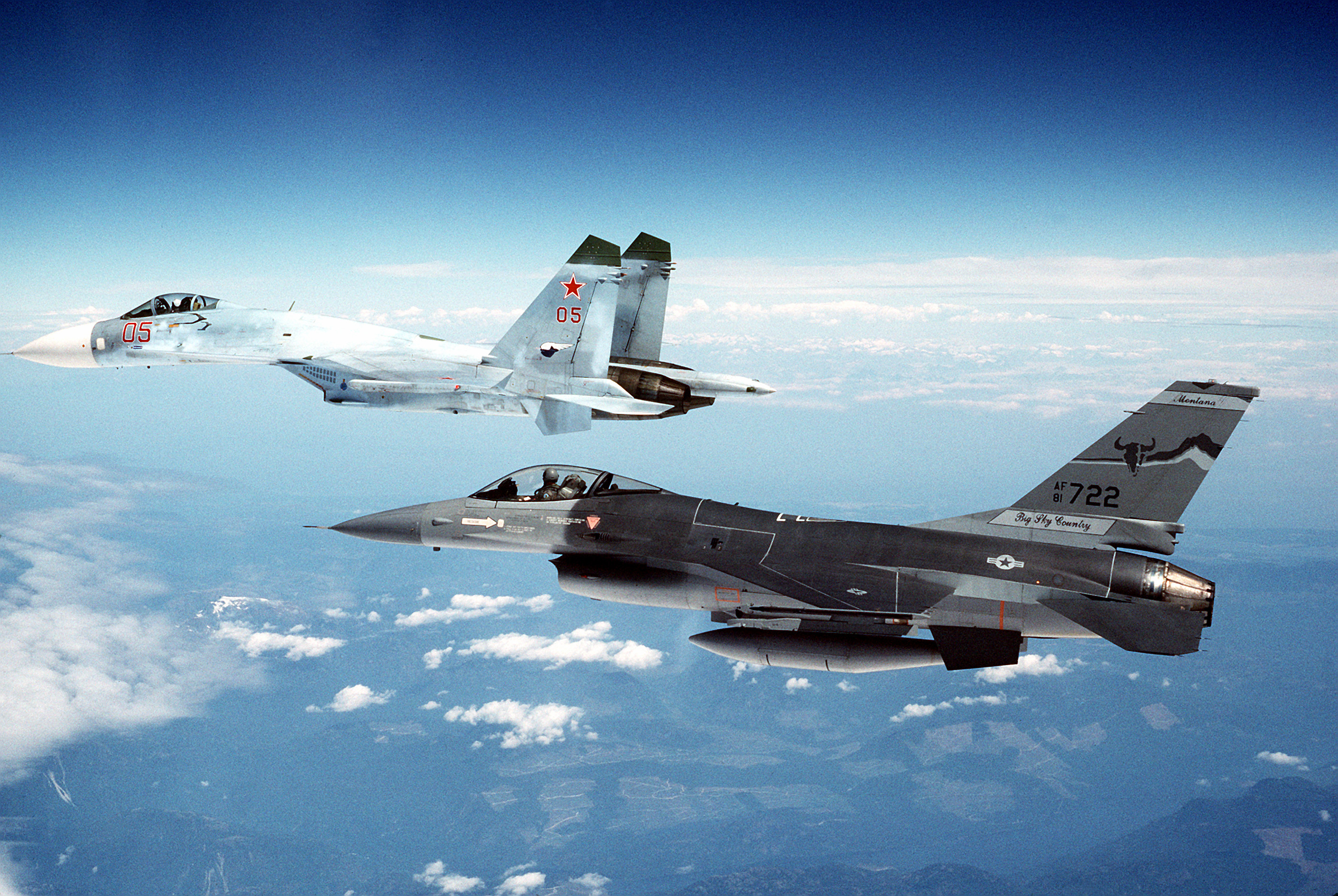 A U.S. Air Force General Dynamics F-16A Block 15G Fighting Falcon aircraft (s/n 81-0772) from the 186th Fighter Squadron, Montana Air National Guard, escorts a Soviet Su-27 Flanker aircraft to the Canadian border after an air show. PAINE FIELD, WASHINGTON (WA) UNITED STATES OF AMERICA (USA)